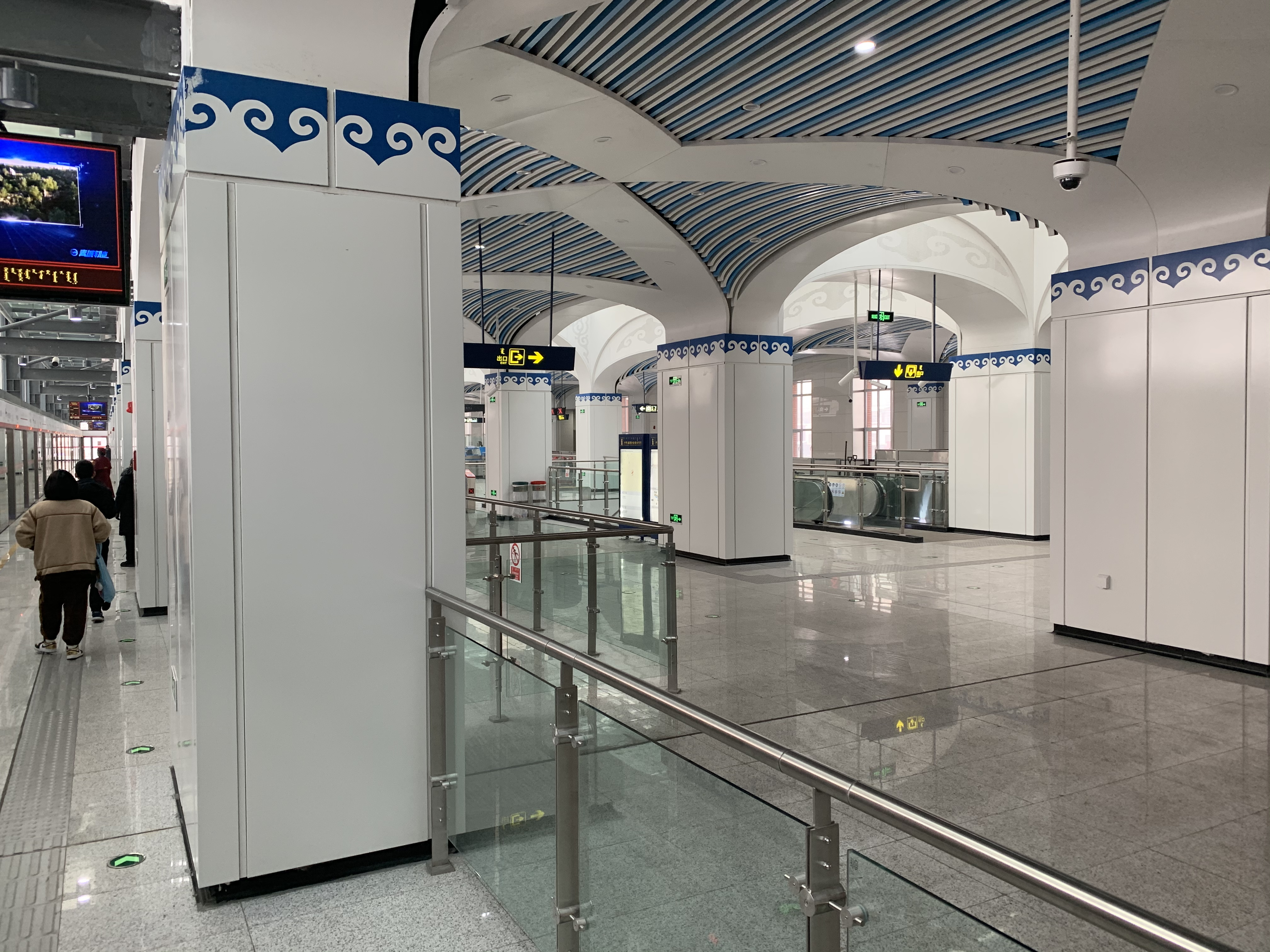 Inside the Yili Health Valley Station